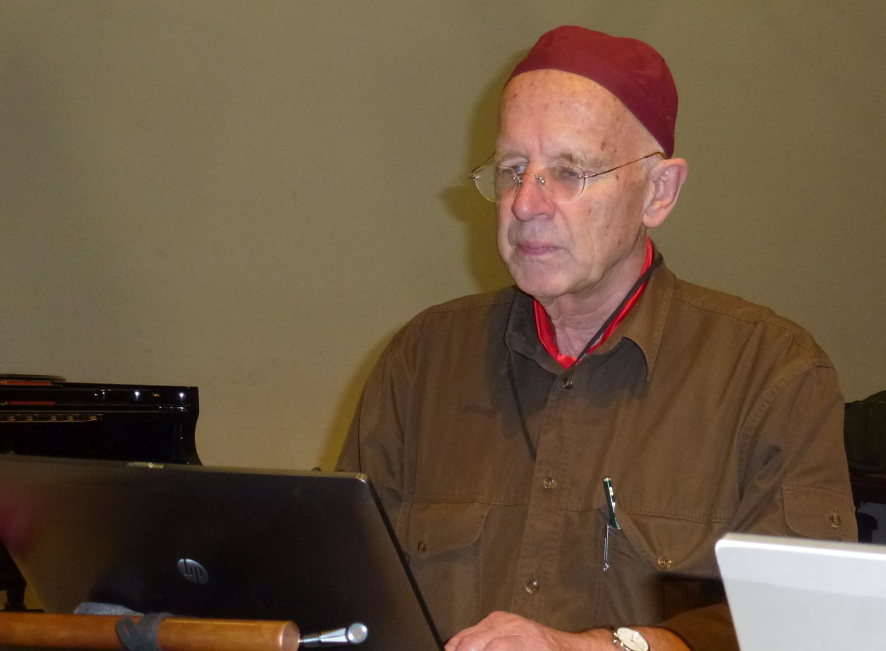 Reference image of the person mentioned in the Wikipedia contribution.